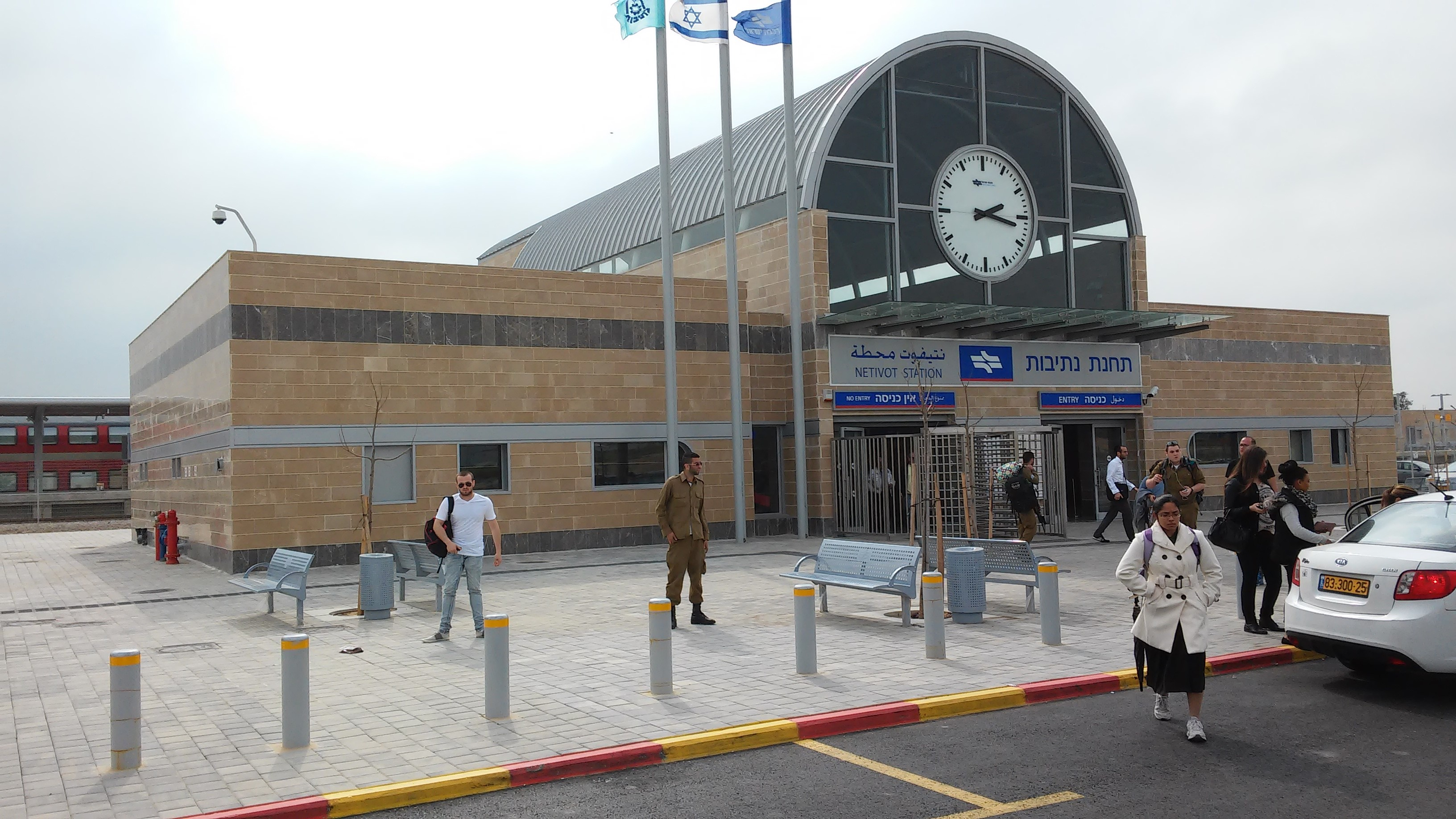 Netivot Train Station